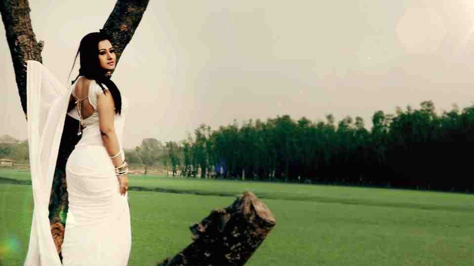 Purnima is a Bangladeshi Actress.